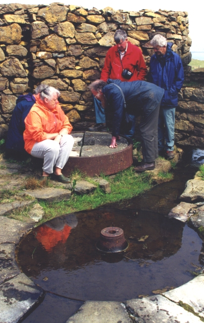 Hagdale Chromite Mill. The iron-shod wheel was originally mounted vertically, rotated round the axle in the central pool, and was used to crush chromite ore.